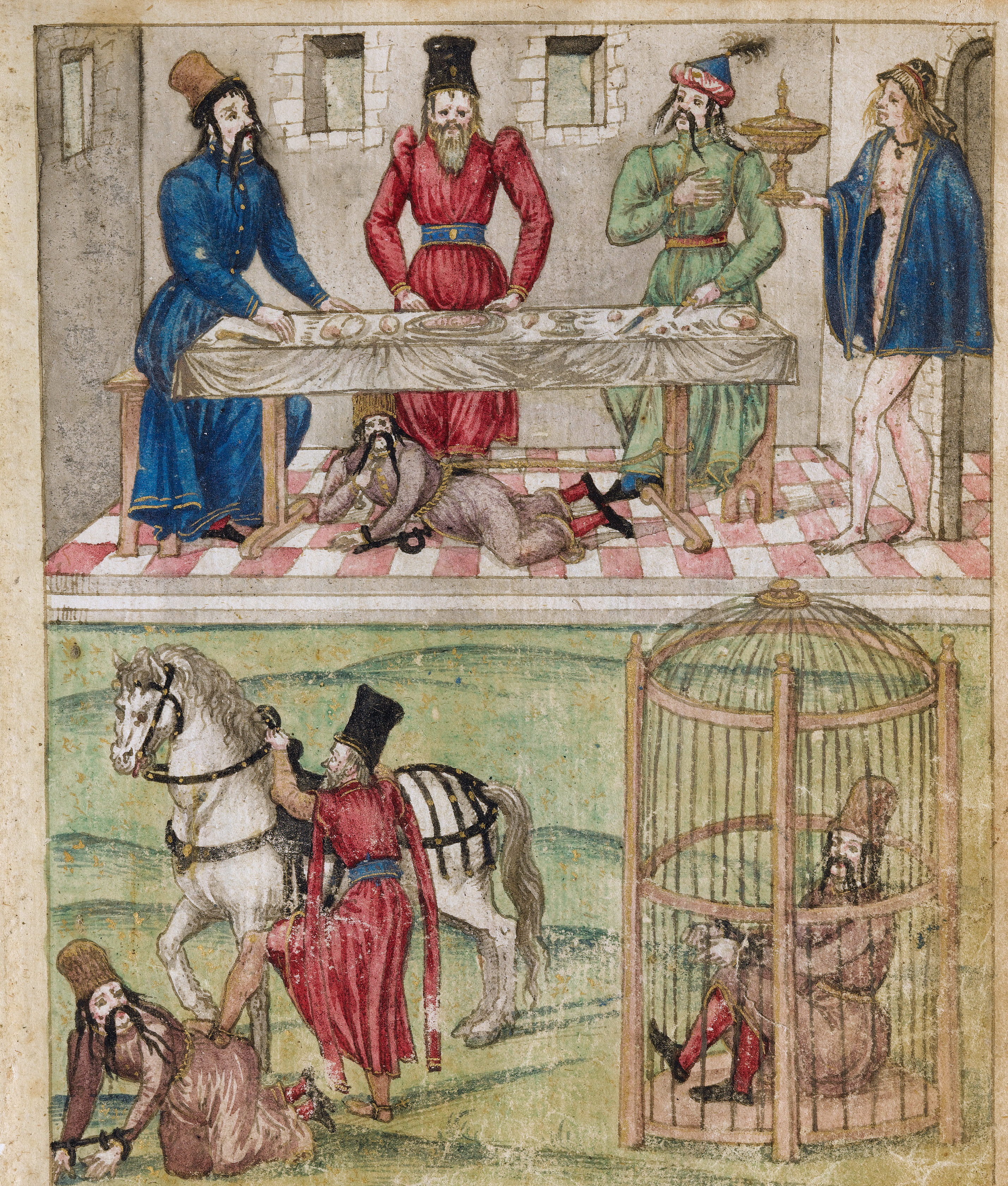 Timur the Great's imprisonment of the Ottoman Sultan Bayezid manuscript on paper 18.7 x 13.5 cm before 1561 the Sultan tied by his waist with a golden rope to Timur's table the Sultan bound and on all fours being used as a mounting-block by Timur, and similarly bound in his gilded cage